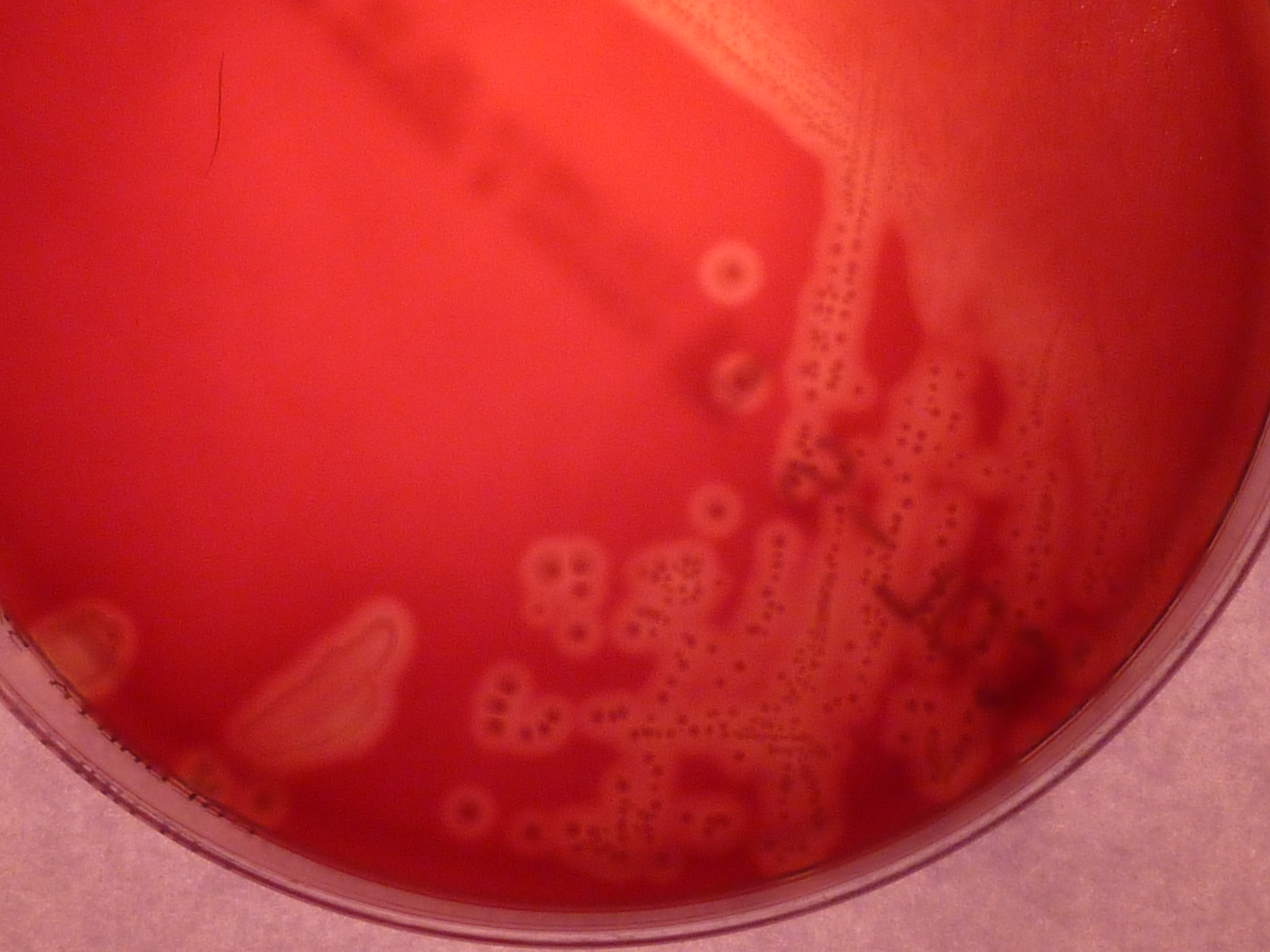 Streptococcus agalactiae (group B streptococcus) beta-hemolytic colonies on blood agar